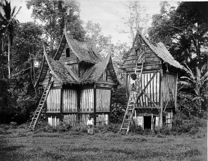 Rice barns in the Minangkabau architectural style in Batipu in the Padang Plateau, Sumatra. Padang Plateau was part of the West Coast province of Sumatra during the Dutch East Indies era, covering the Nan Tigo Luhak region.